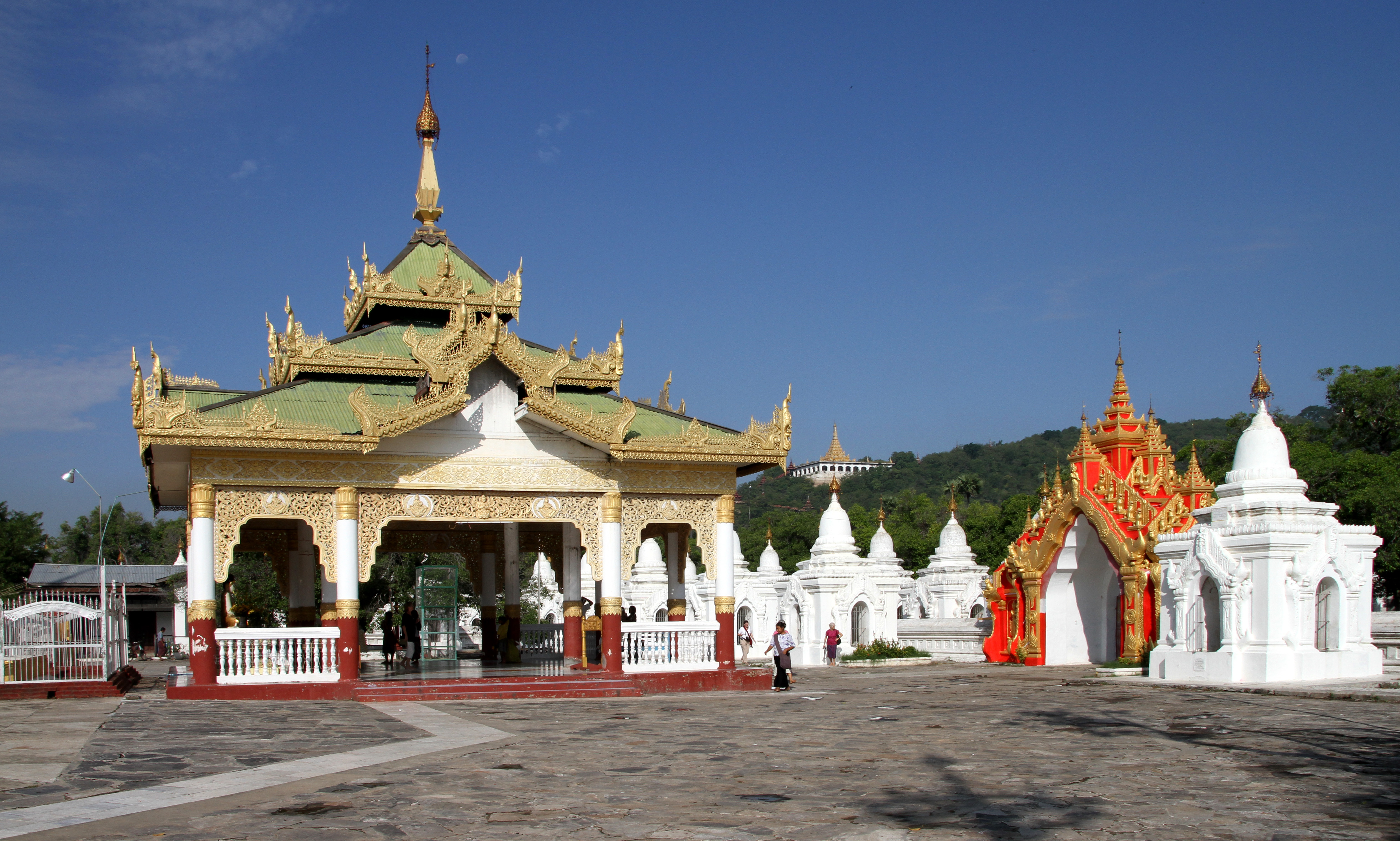 Kuthodaw Pagoda in Mandalay in Myanmar. Inscription Shrines.